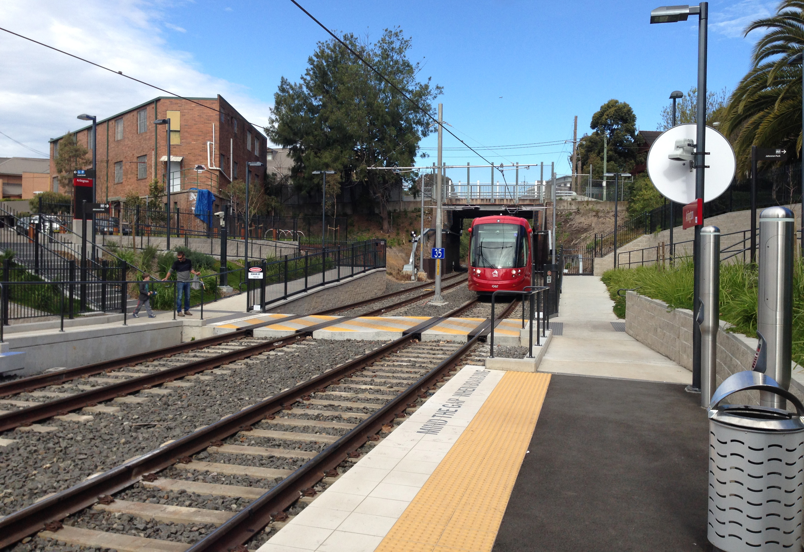 View of Arlington light rail stop looking towards Constitution Road.